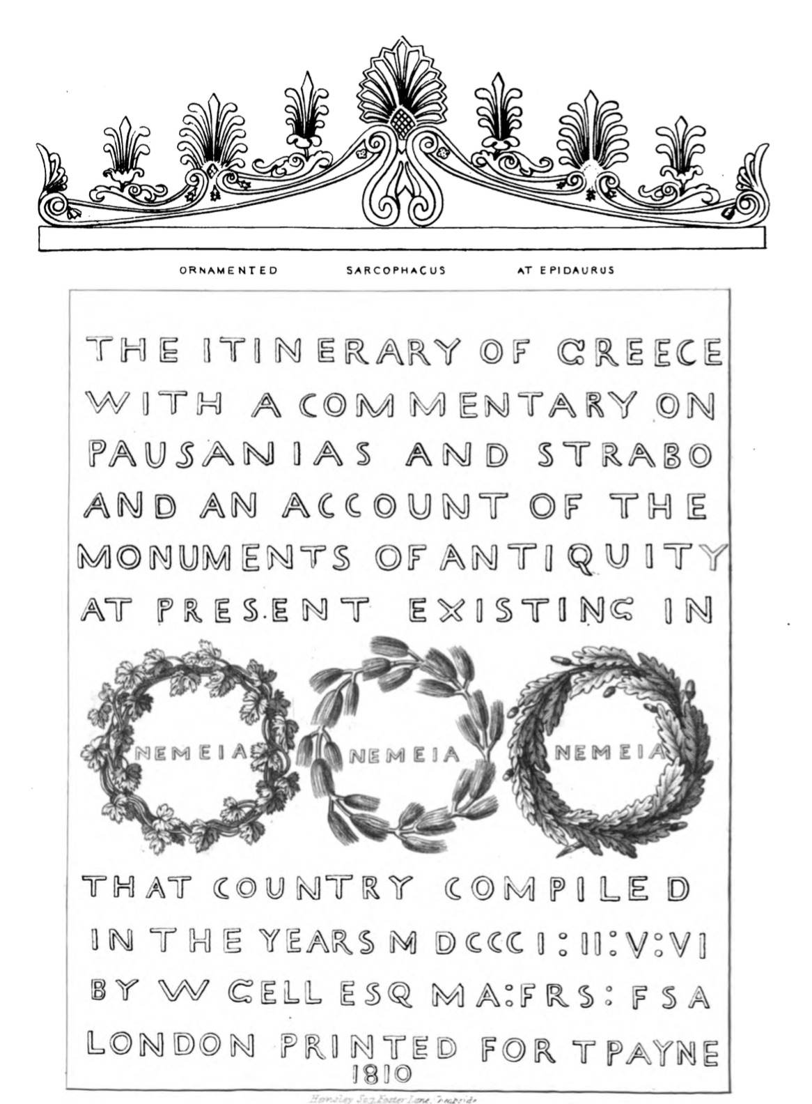 James Mosley's description: "In 1810 William Gell published a book about his exploration of antiquities in Greece, and drew this quite nice title page for it using sanserif capitals. He would have been familiar with early Greek monoline inscriptional lettering."